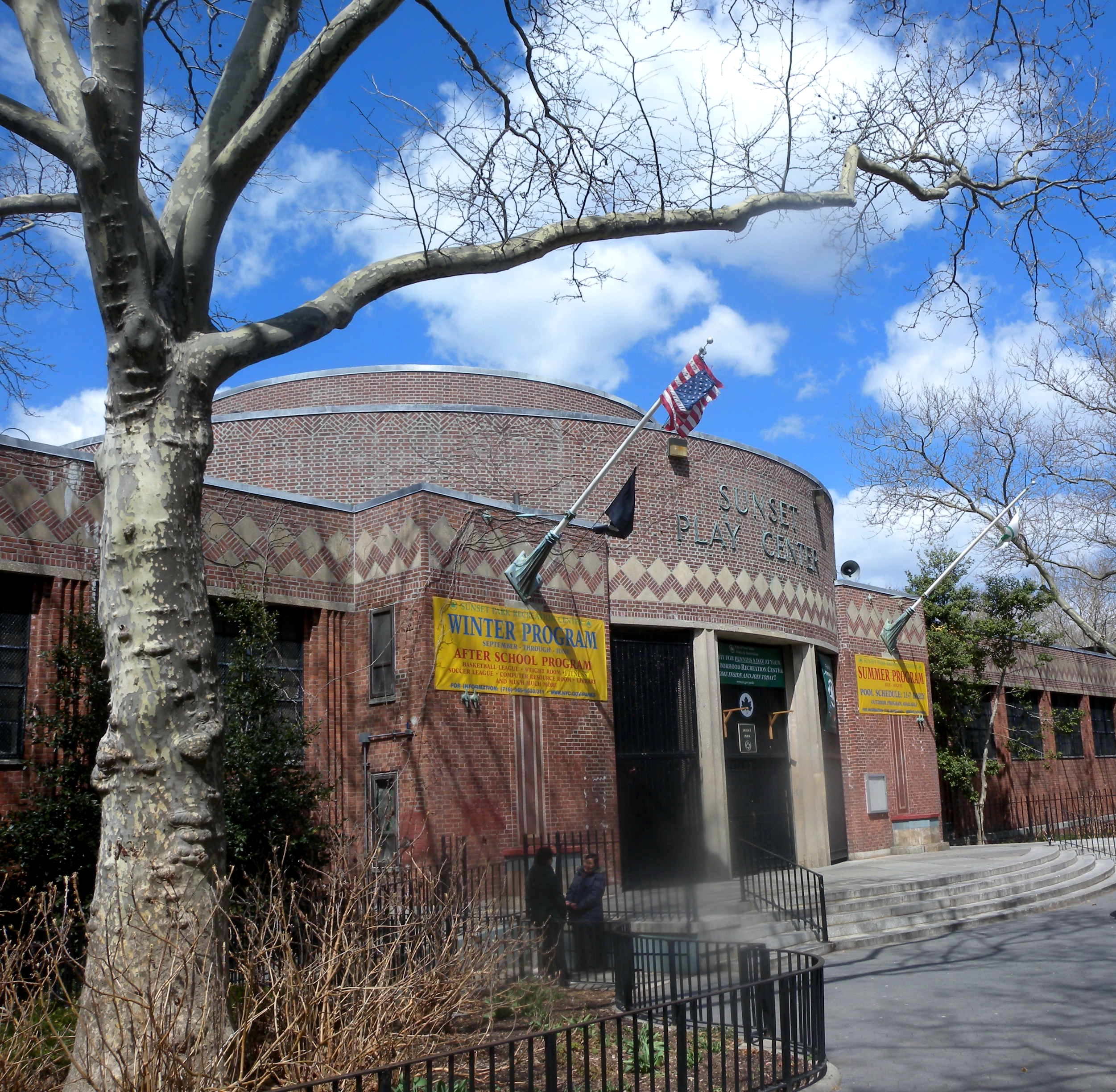 Looking north at Play Center on a mostly sunny early afternoon.